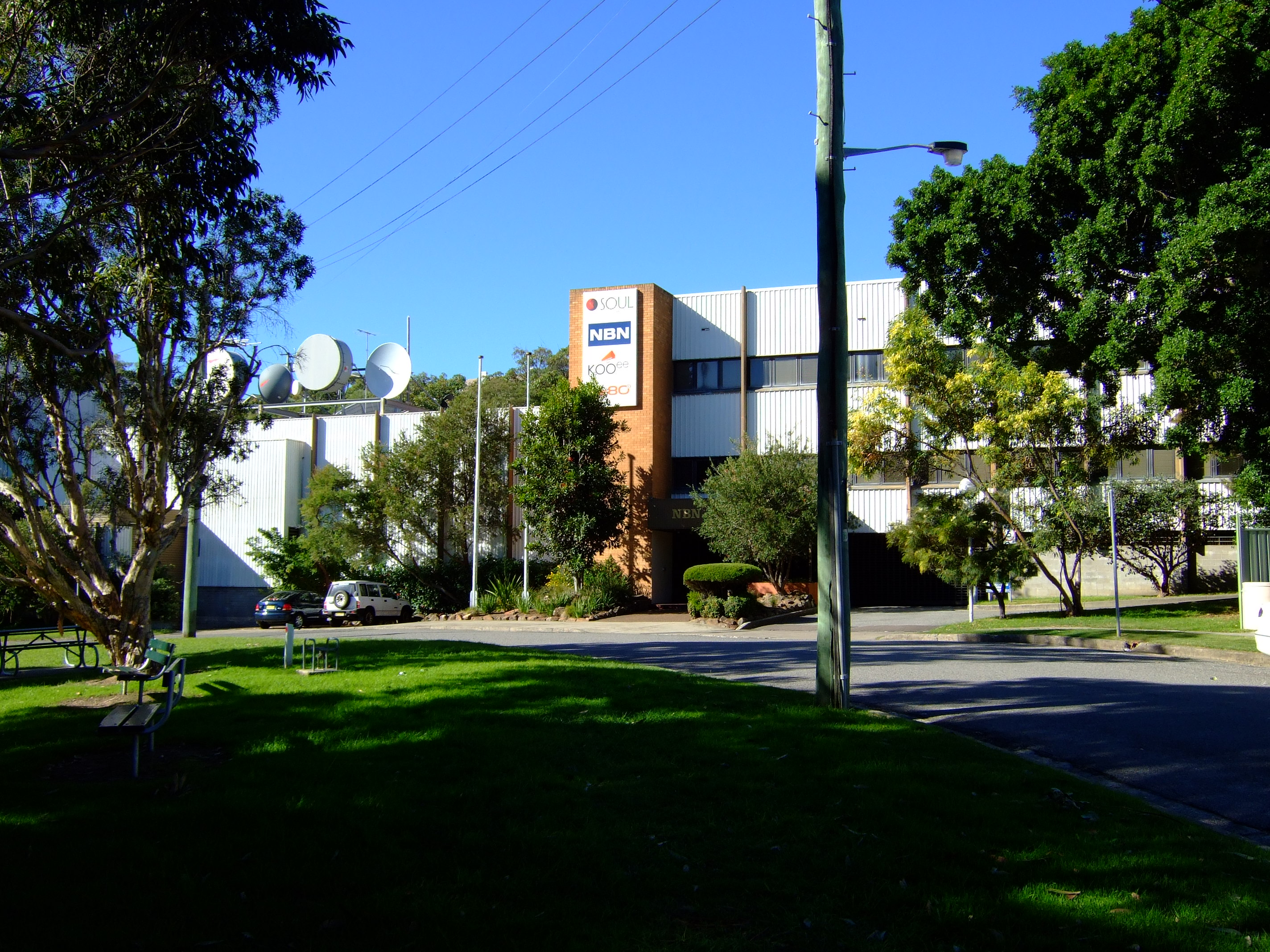 The front of the NBN Television's Main Studio's in Mosbri Crescent Newcastle. For more information see the NBN Television Wikipedia Page. This shows a part of the "Administration" section of NBN. The Studio's are further to the left. I will upload an image of the studio's soon. Photo taken by Roderick Breis on Saturday 26th May 2007.